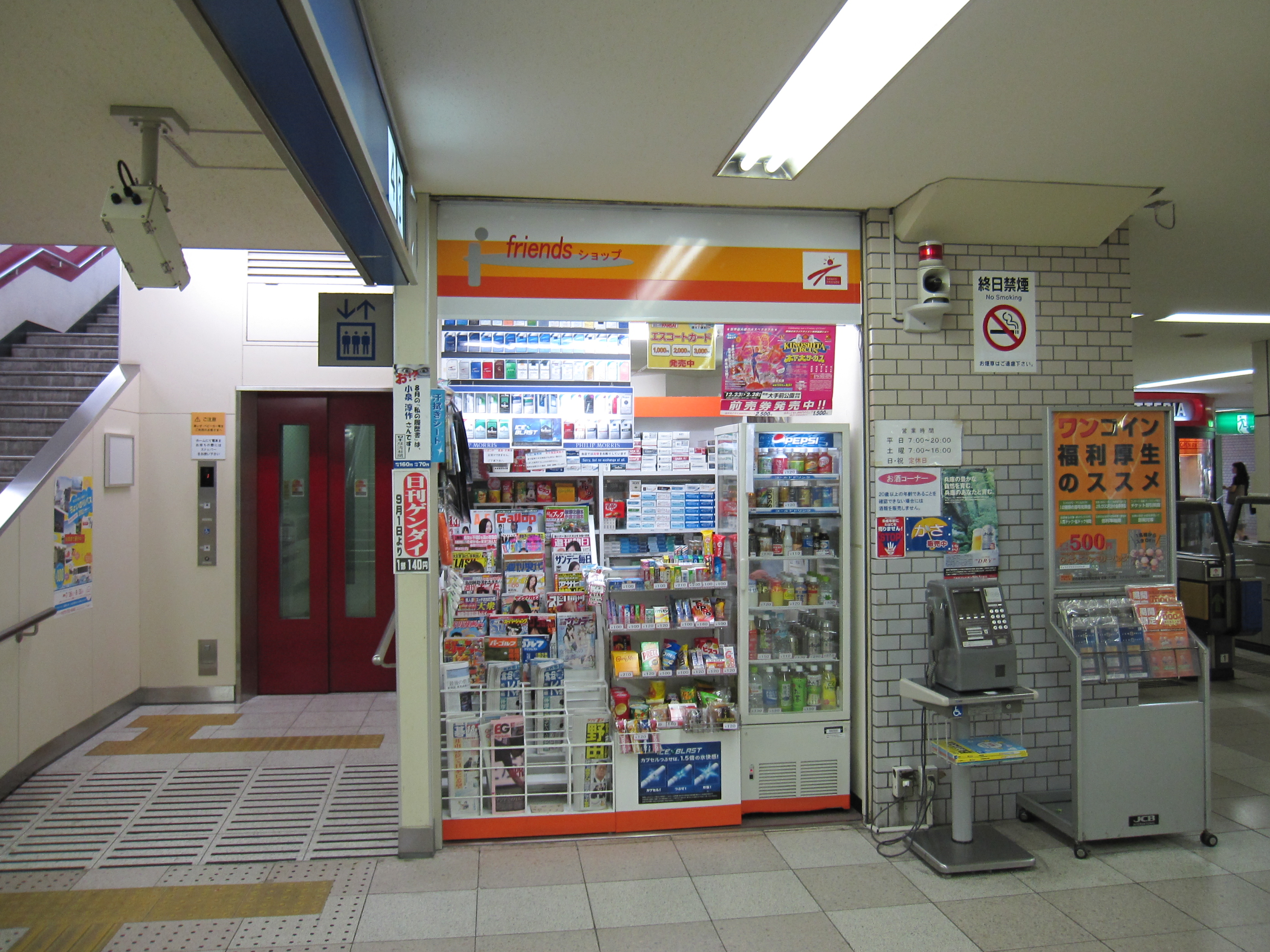 Friends Shop kiosk at Sanyo-Akashi Station